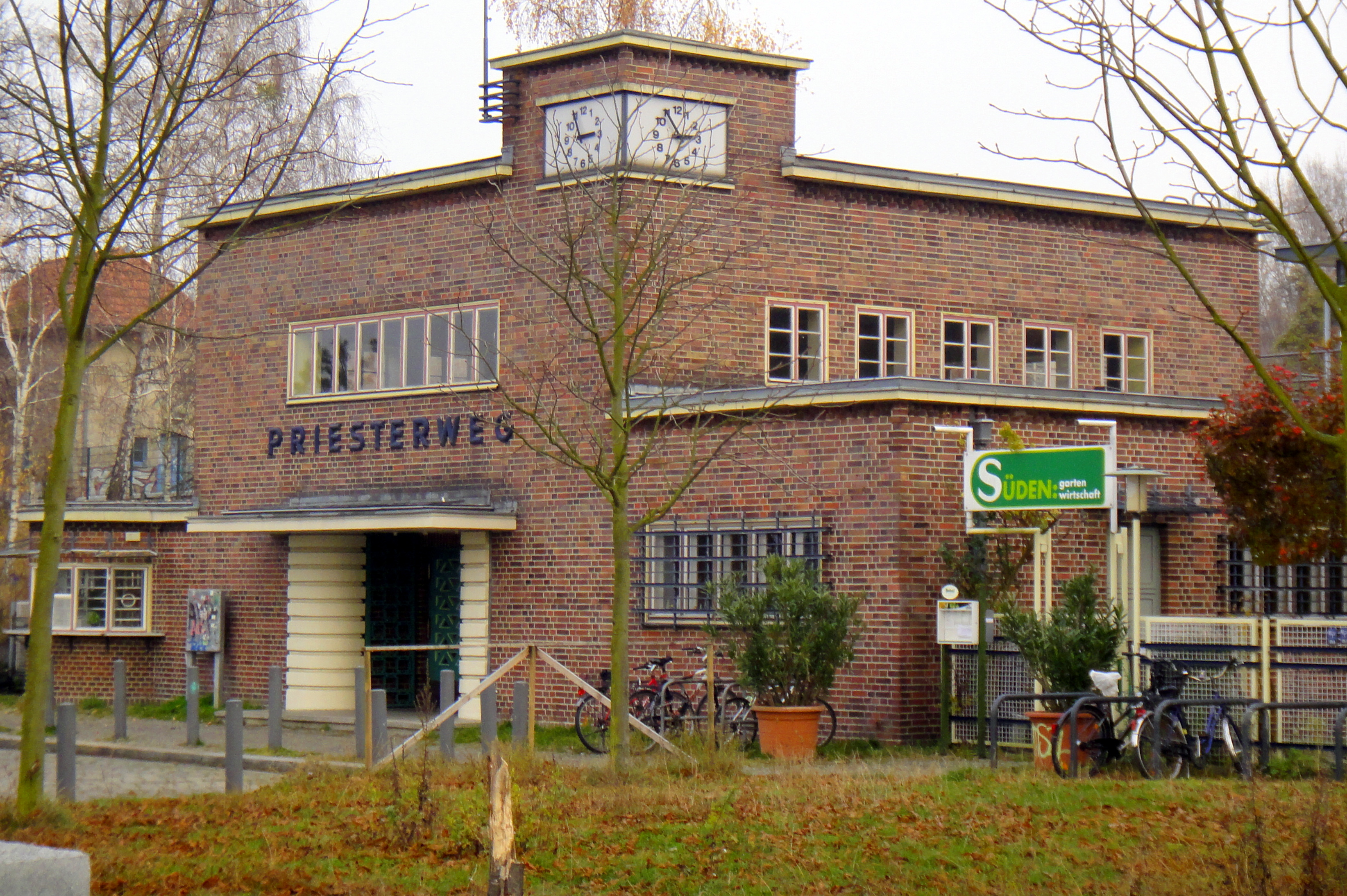 railway station Berlin-Priesterweg